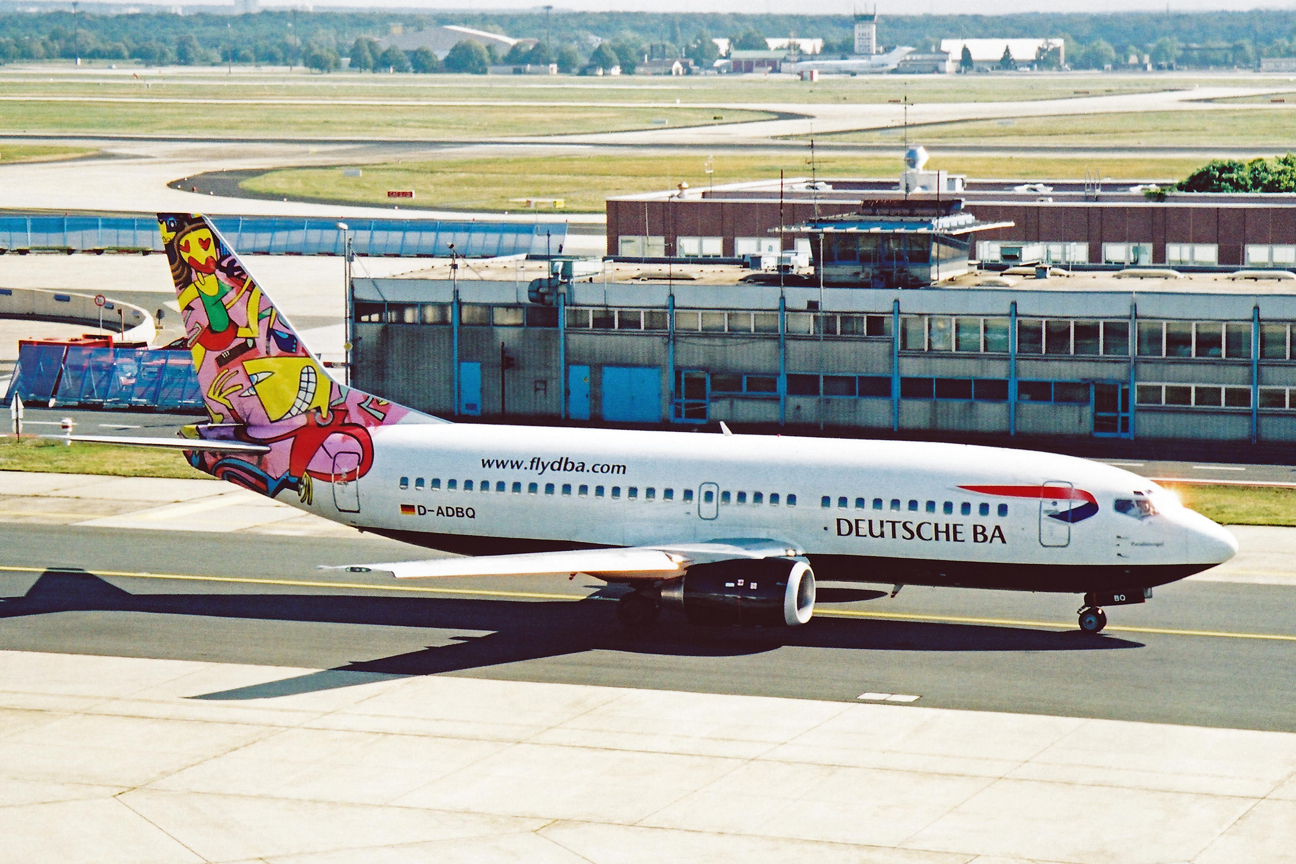 'Paradiesvogel', Germany World Tail c/scheme.